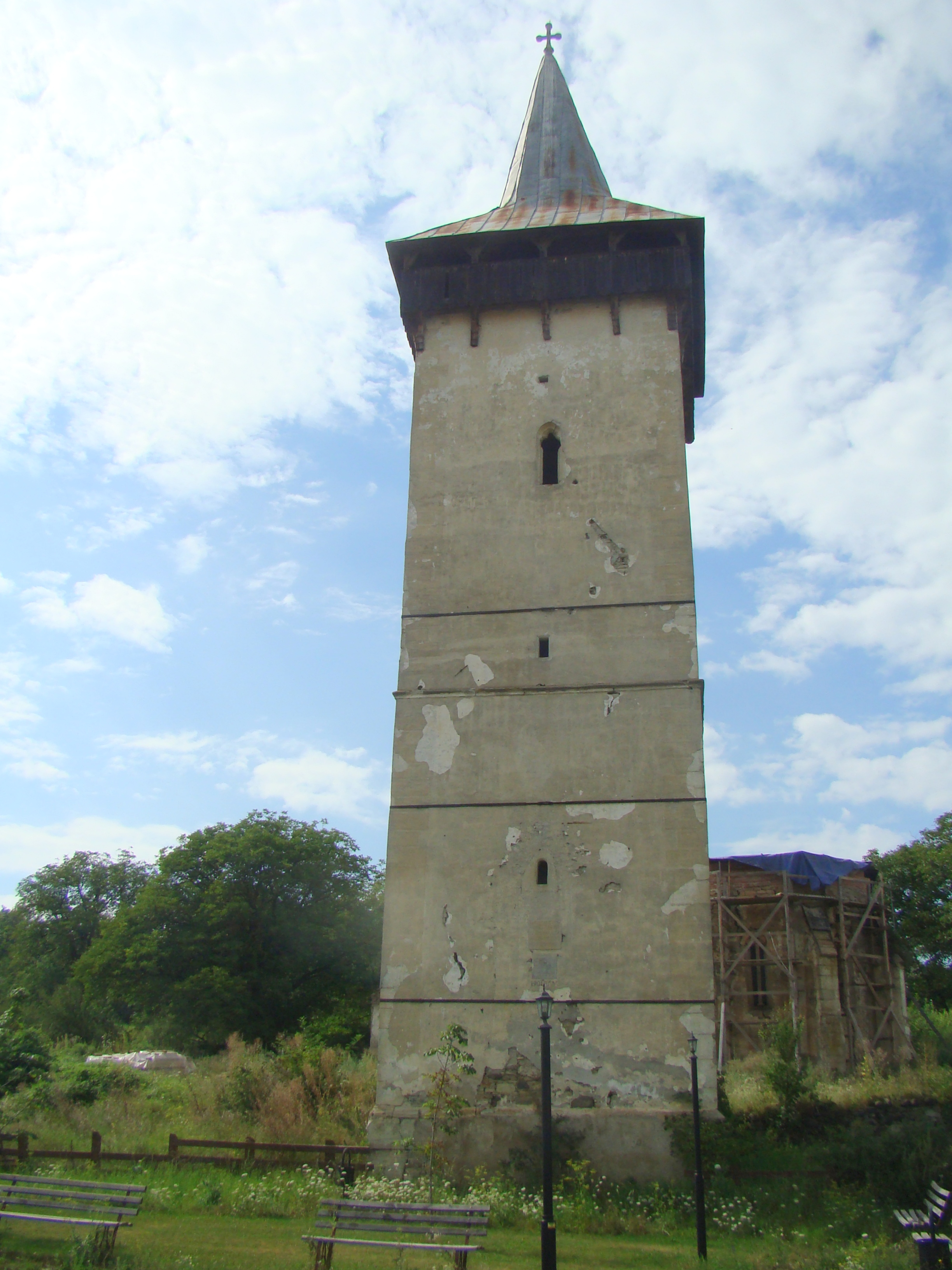 Lutheran church in Jelna, Bistrița-Năsăud county, Romania